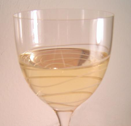 A glass of pinot grigio wine.